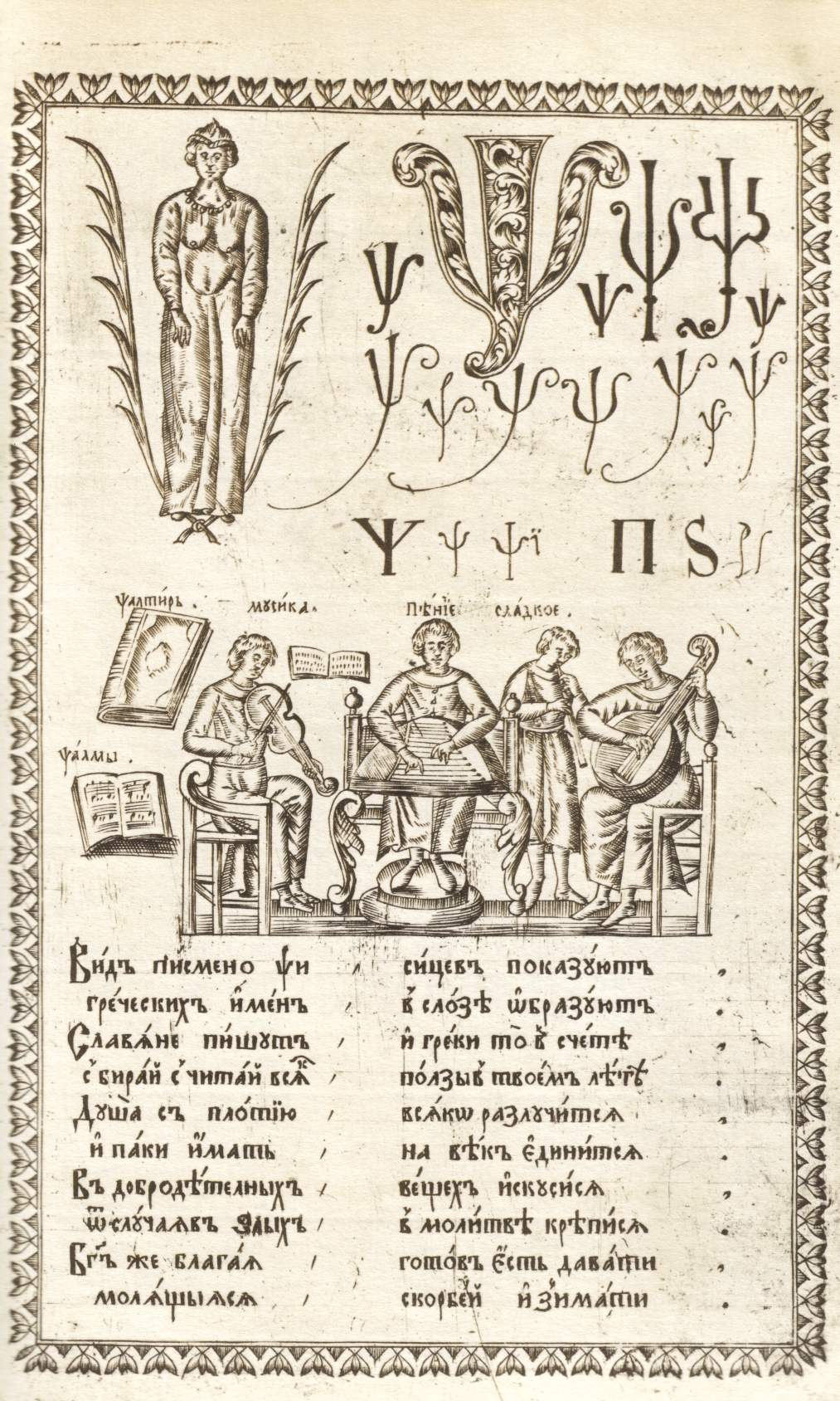 Karion Istomin's alphabet book, letter Ѱ